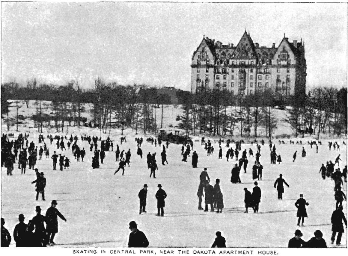 The Dakota building on a photograph from the late 1880s.